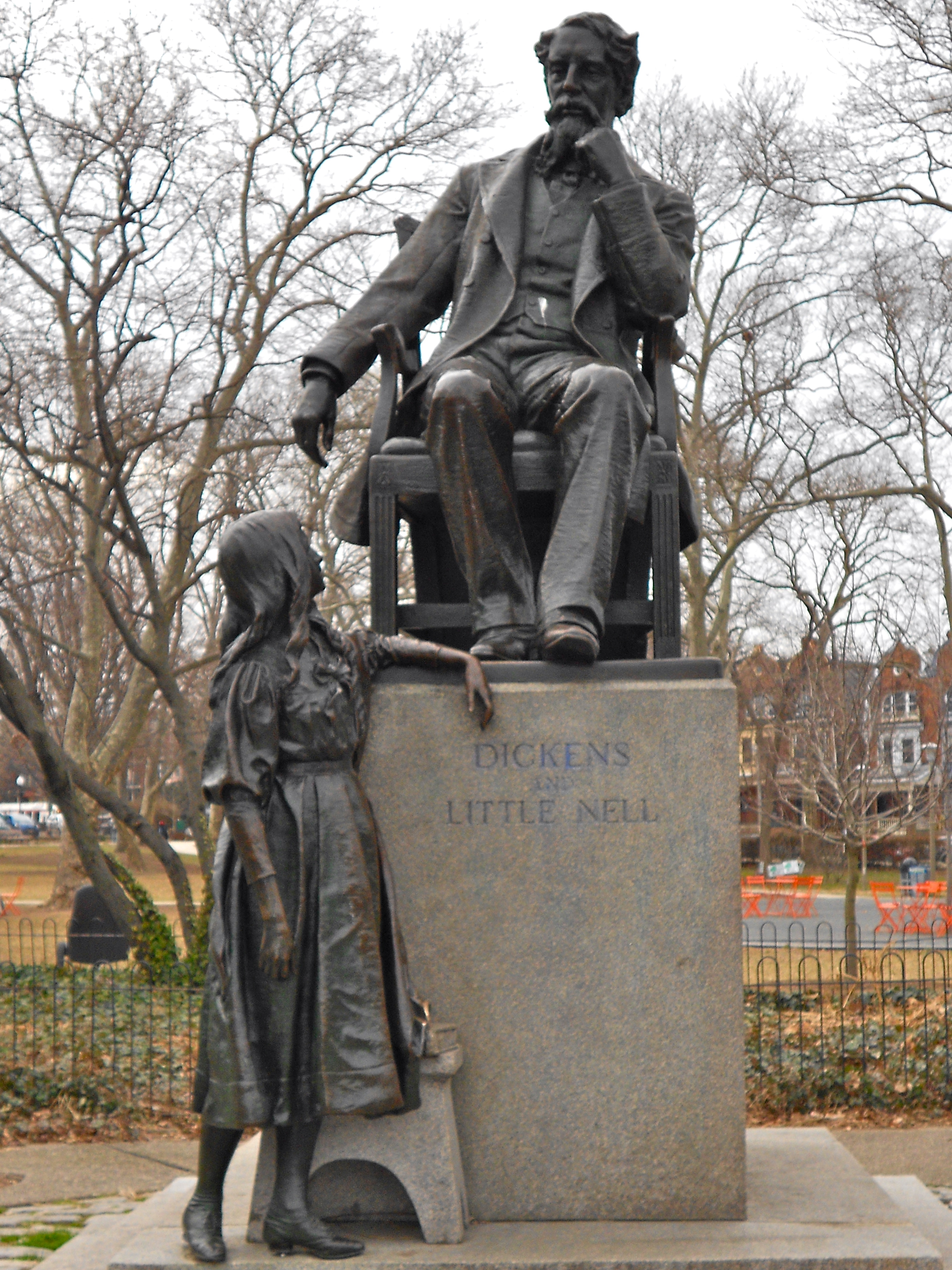 Sculpture of Charles Dickens and Little Nell in Philadelphia. Possibly only public sculpture of Dickens, since he specifically asked not to have any!